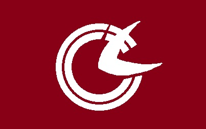 Flag of Mori Shizuoka